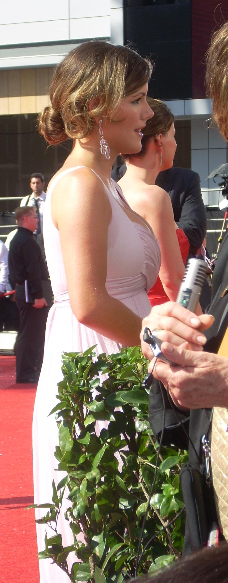 Actress Kathleen Robertson at 2008 Emmy Awards.